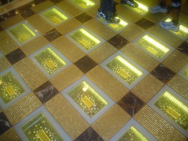 Gold Bars At Grand Emperor Casion in Macau